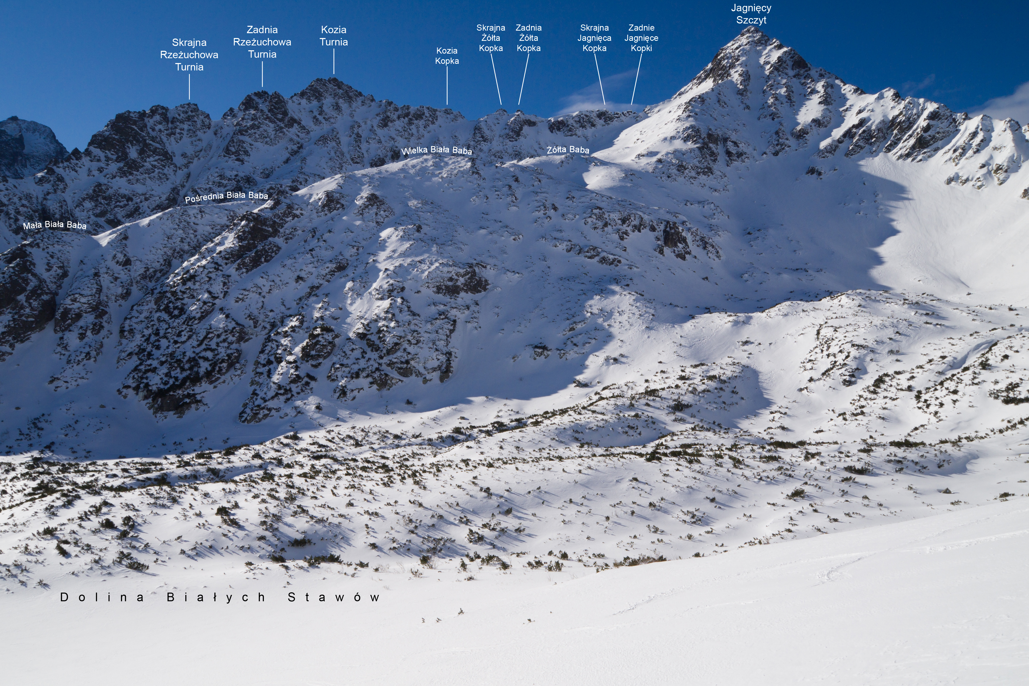 Jahňací štít and Kozí hrebeň – view from Dolina Bielych plies (Polish captions).